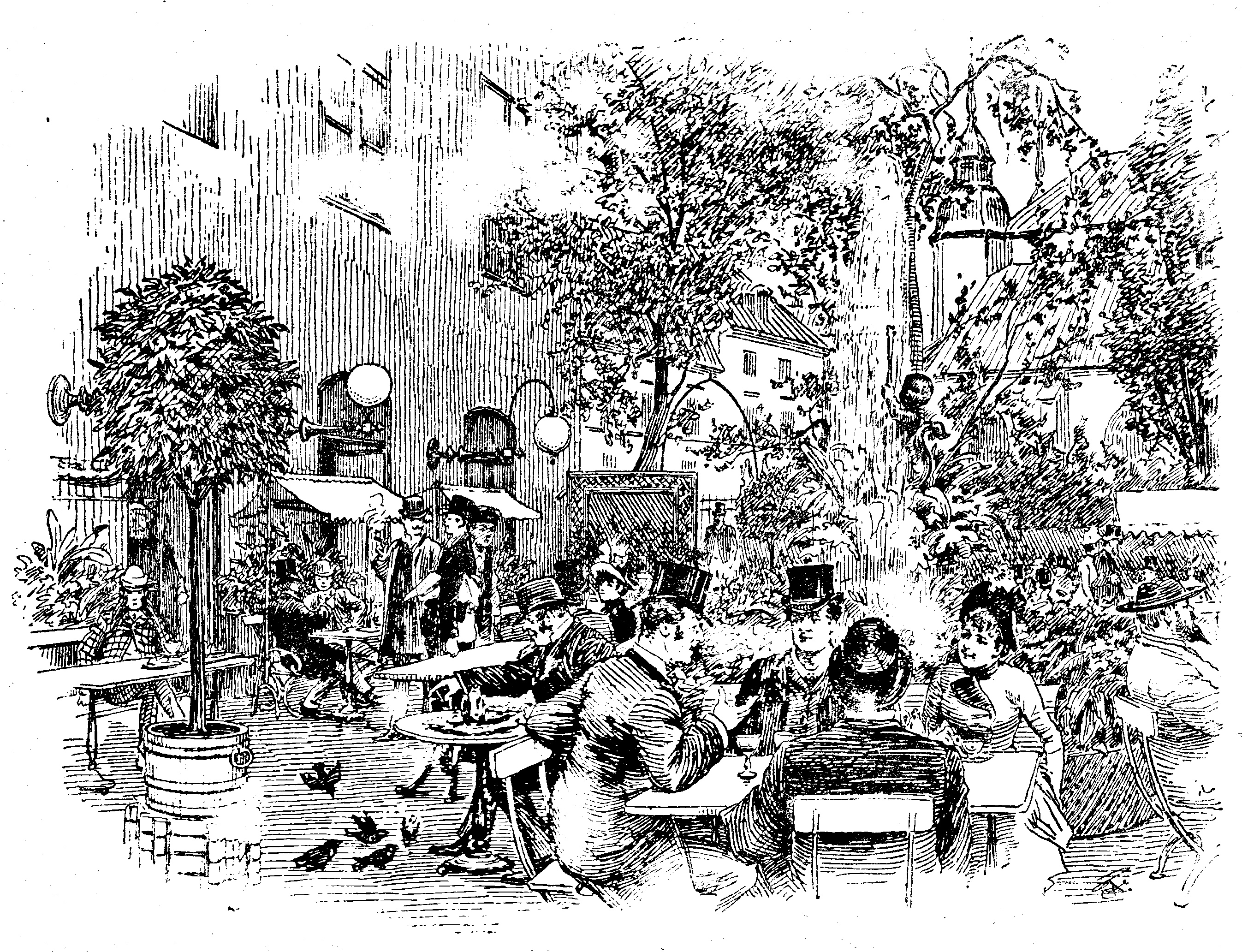 Drawing by Claës Lundin from Nya Stockholm, Hugo Gebers förlag 1890